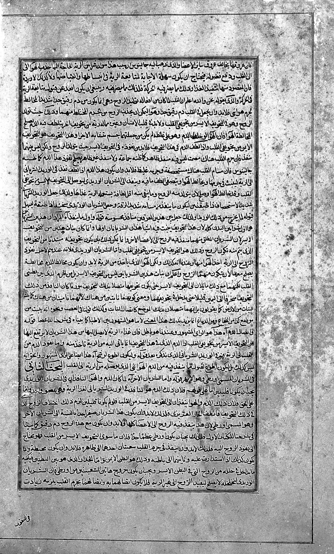 WMS Or. 51 Oriental (Arabic) Manuscript. Ibn an-Nafis: Commentary on Avicenna's Canon of Medicine. First description of pulmonary circulation. Wellcome Images Keywords: ARABIC; avicenna; canon; CIRCULATION; ibn an-nafis; manuscript; ms or 51; or 51